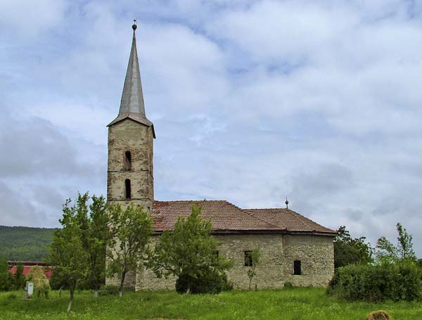 the church in Marosnémeti (Mintia, Hunedoara County, Romania)